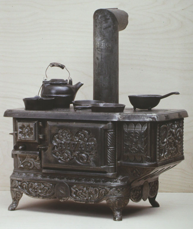 A toy stove in the permanent collection of The Children’s Museum of Indianapolis